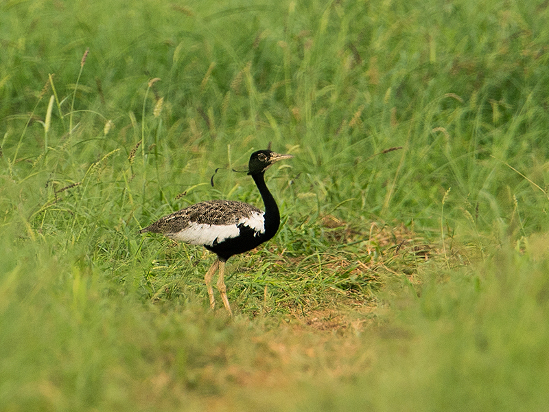 A male Lesser Florican Sypheotides indicus from Rajasthan, India.